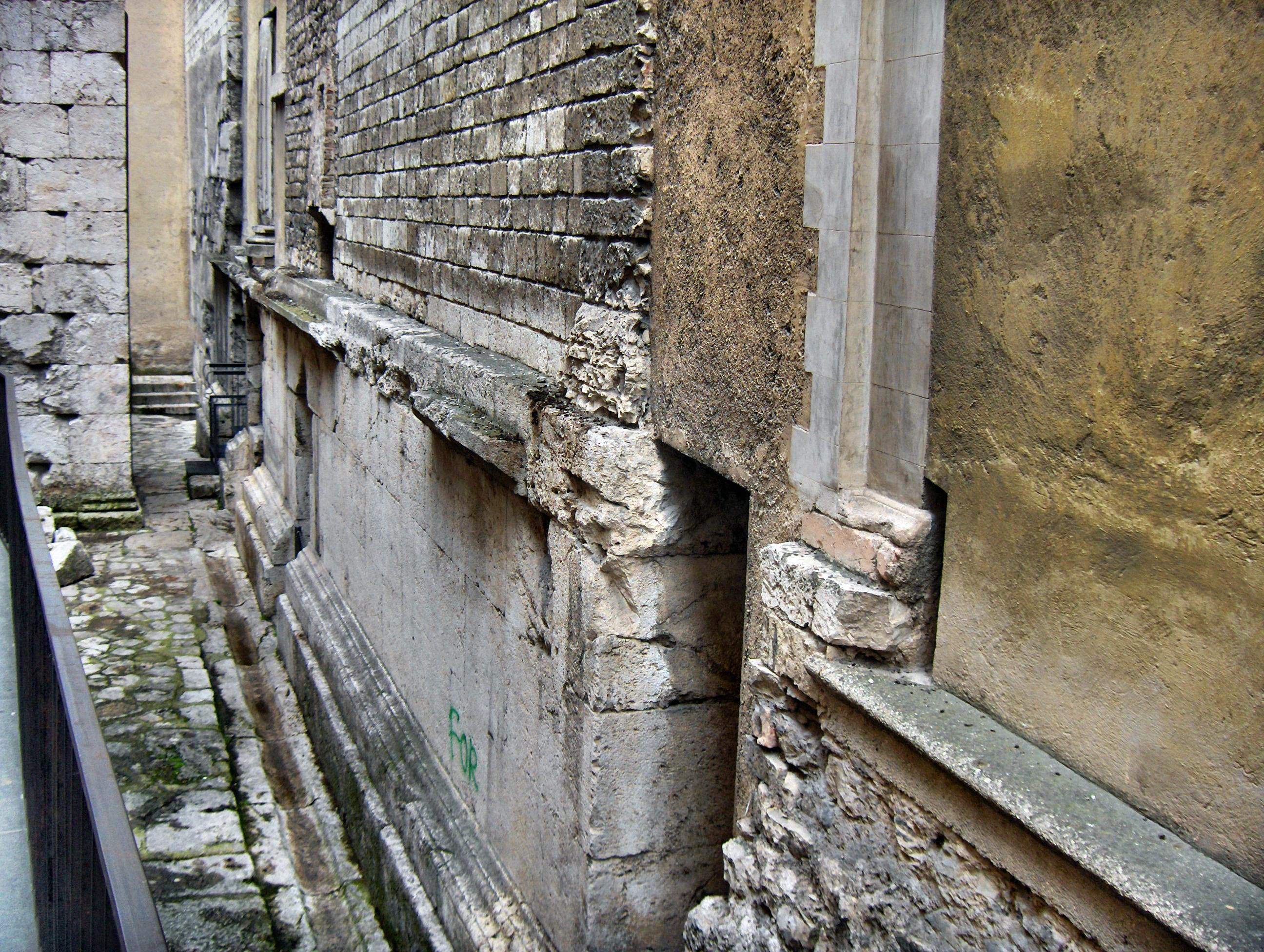 Church of S. Ansano (12th-18th c.); Spoleto, Italy; Exterior walls built on the base of a Roman temple